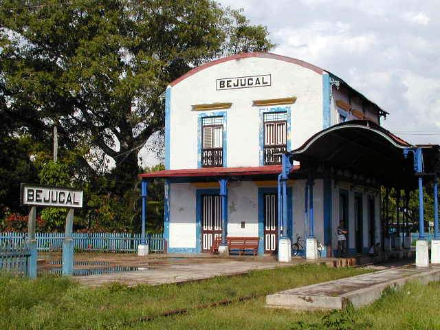 Oldest Cuban Railway station in Bejucal town Havana Province. It was the first railway built in Latin America